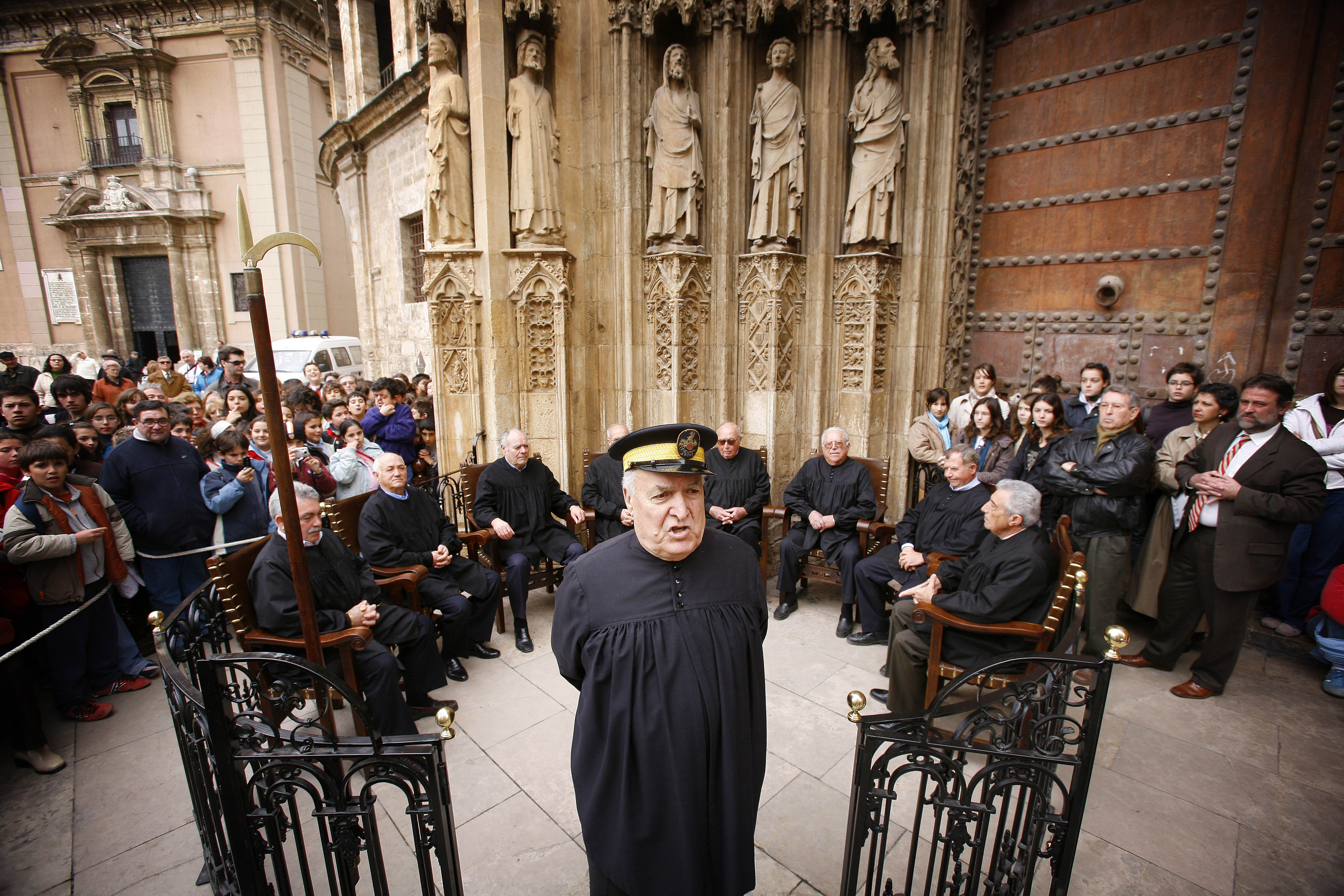 The Tribunal de las Aguas of Valencia, Valencia, Spain. Every Thursday morning the judges selected and elected among the farmers meet to settle the disputes between farmers relative to the distribution of the Turia's waters.